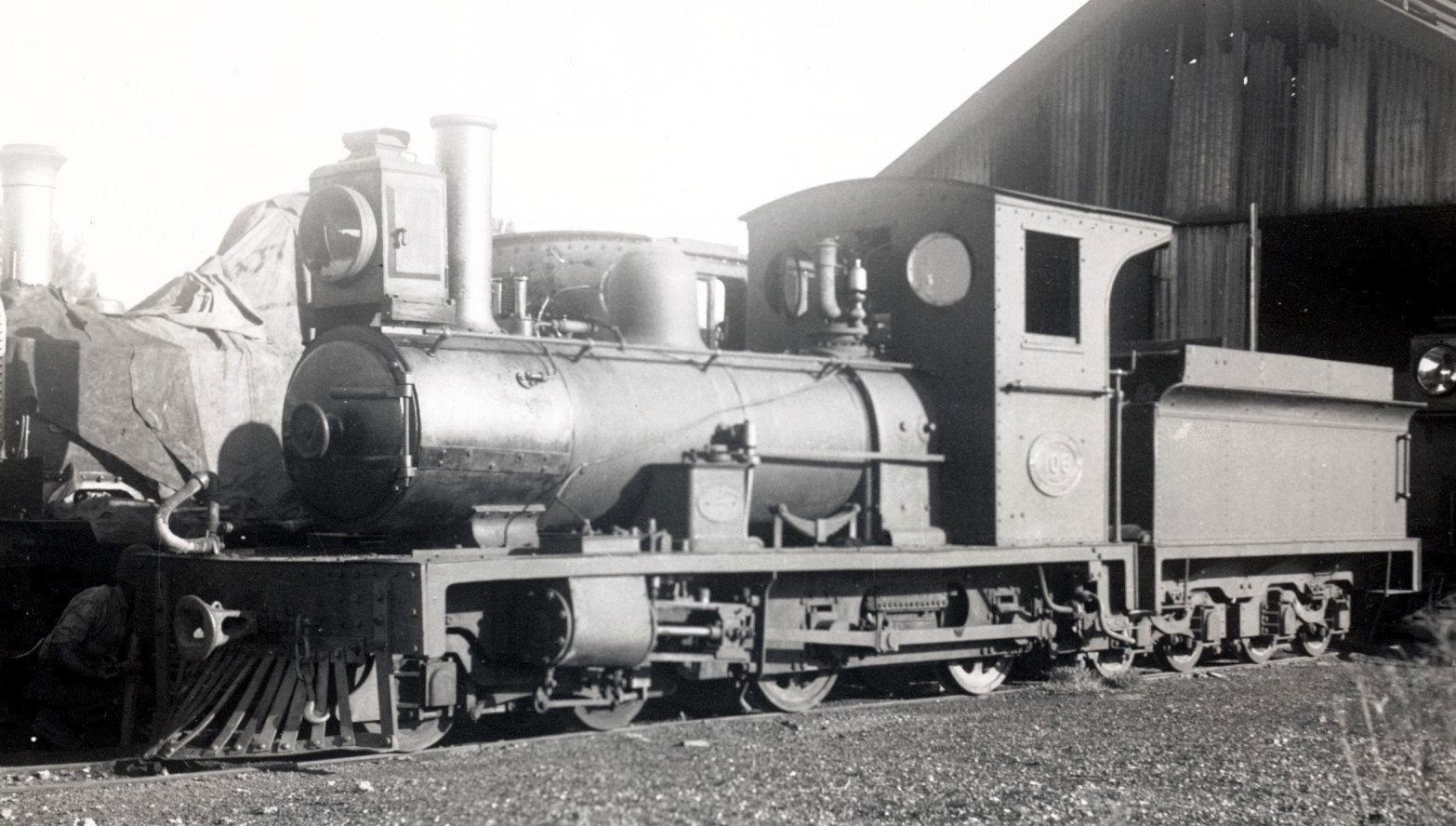 SAR Class NG6 106 (4-4-0), Fort Beaufort